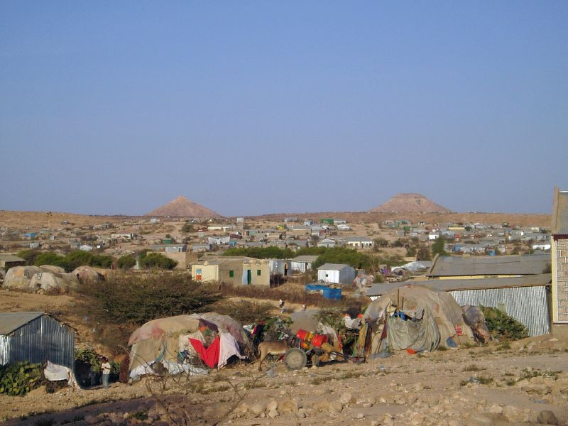 The Naasa Hablood hills near Hargeysa, Somalia. Original description: The mountains shown in the background are the symbol of the city and can be seen from most vantage points. The photo was taken near my parent’s house and it was sobering to see such absolute poverty. There are no amenities provided by the state. The water has to be transported by donkey and both light and cooking fuel is provided by an environmentally unsustainable supply of charcoal.